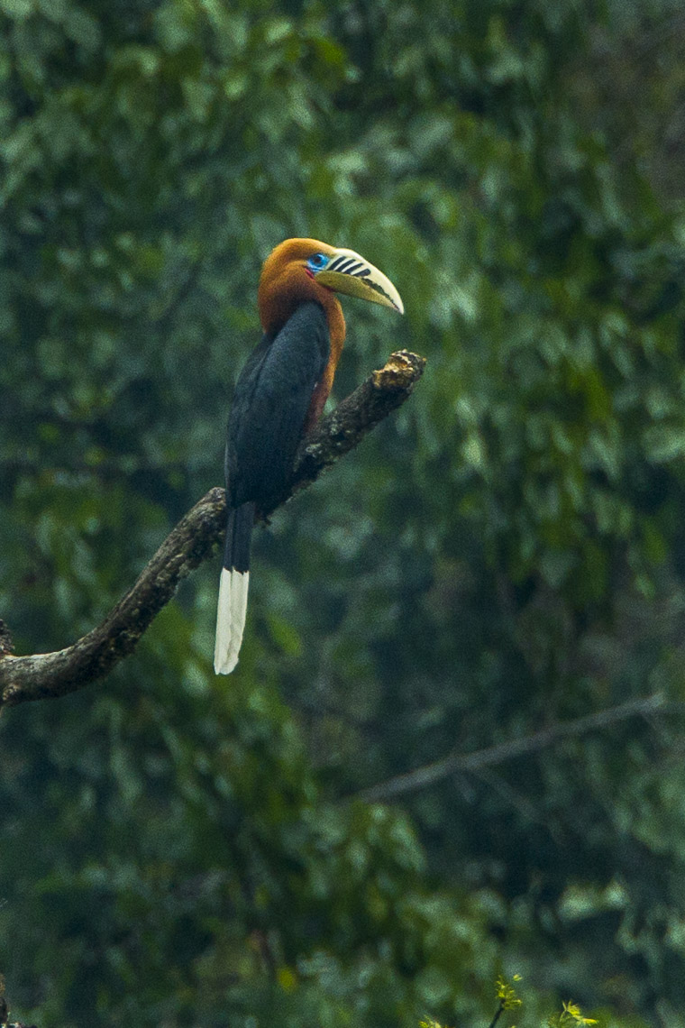 Rufous-necked Hornbill - Bhutan_S4E0813